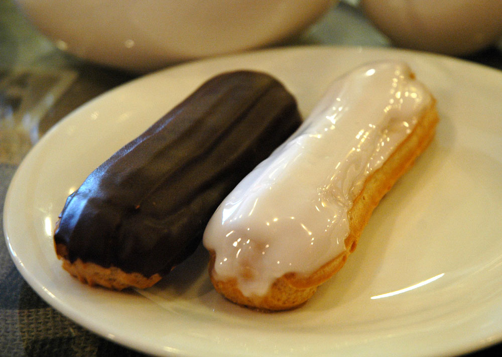 Ecler